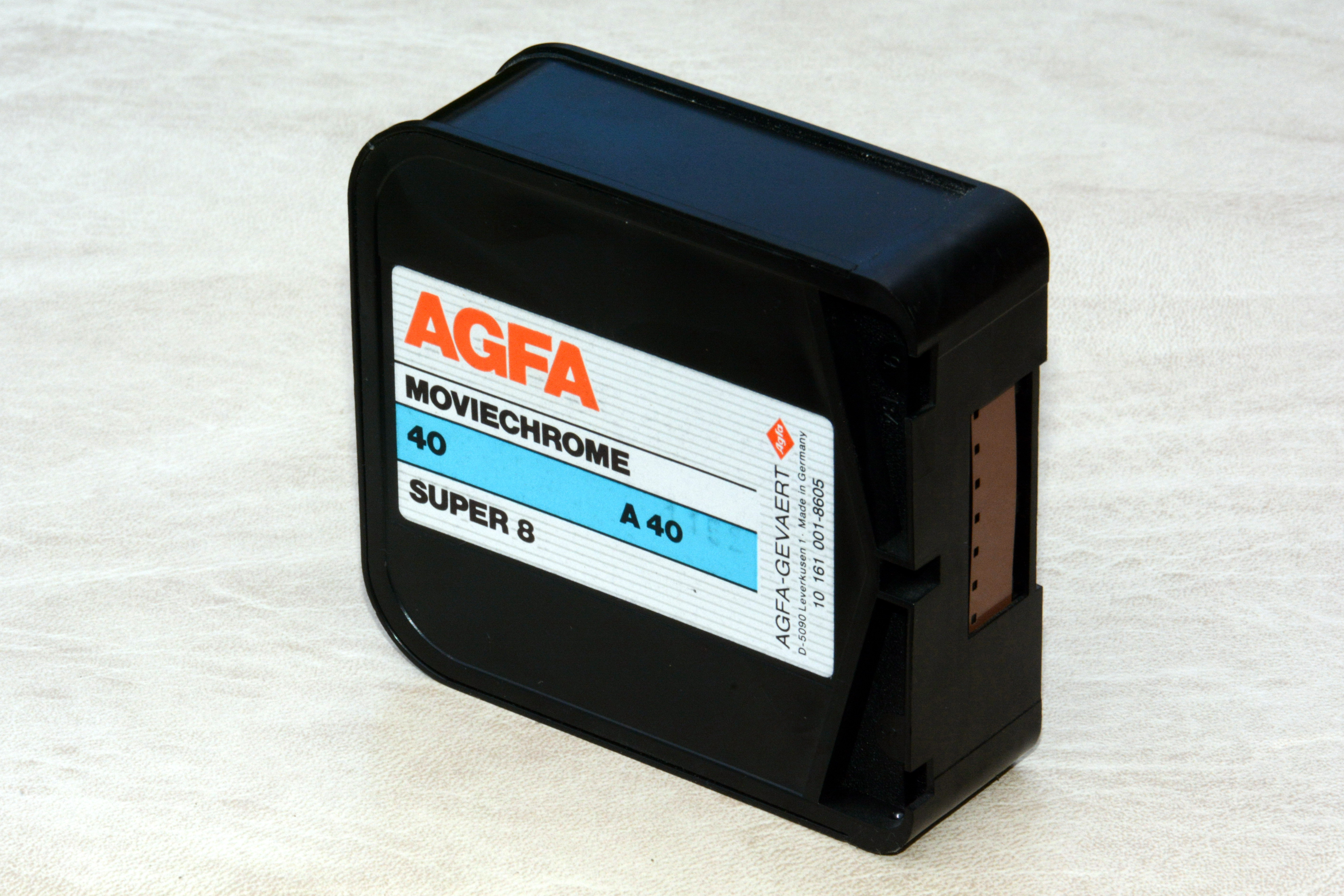 Agfa Moviechrome 40 - Super 8 film cartridge